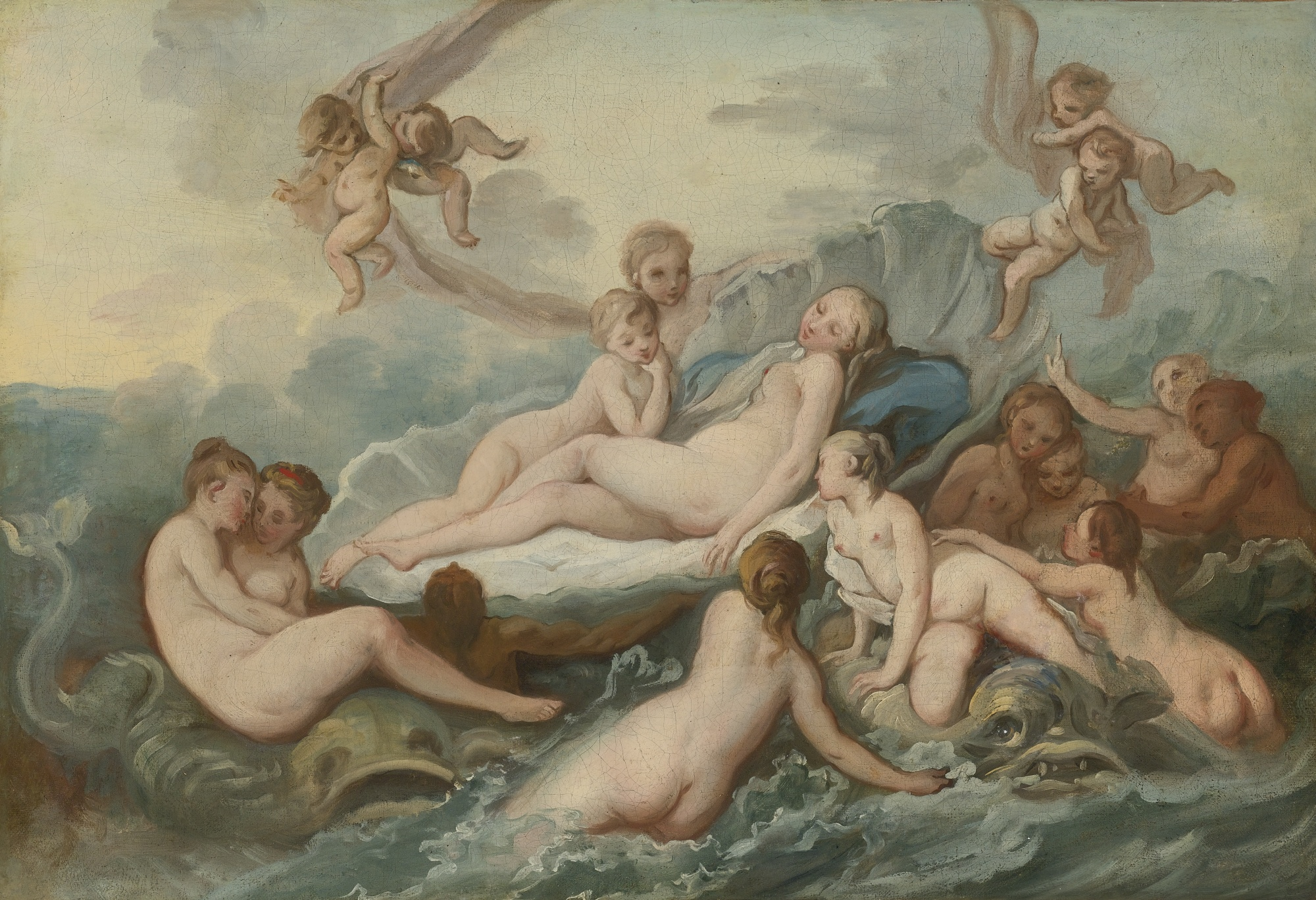 The Birth of Venus; oil on canvas; 37.5 x 54.6 cm